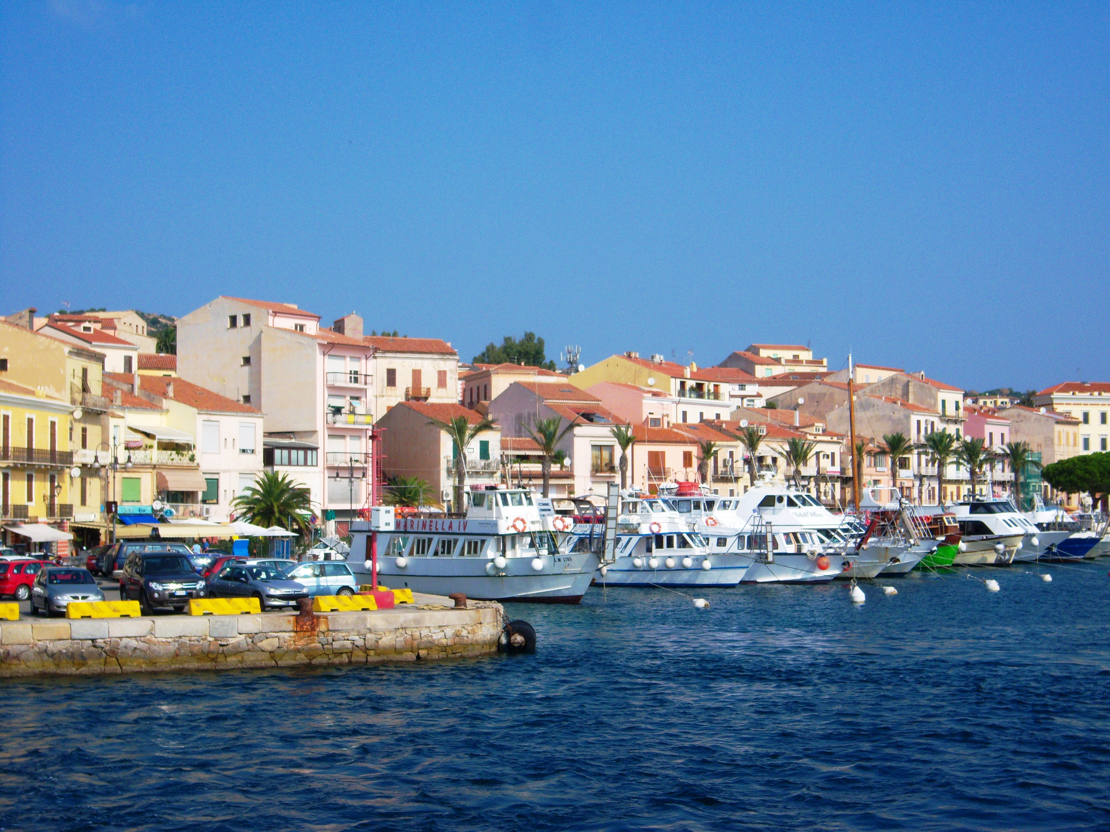 La Maddalena port view from a boat.